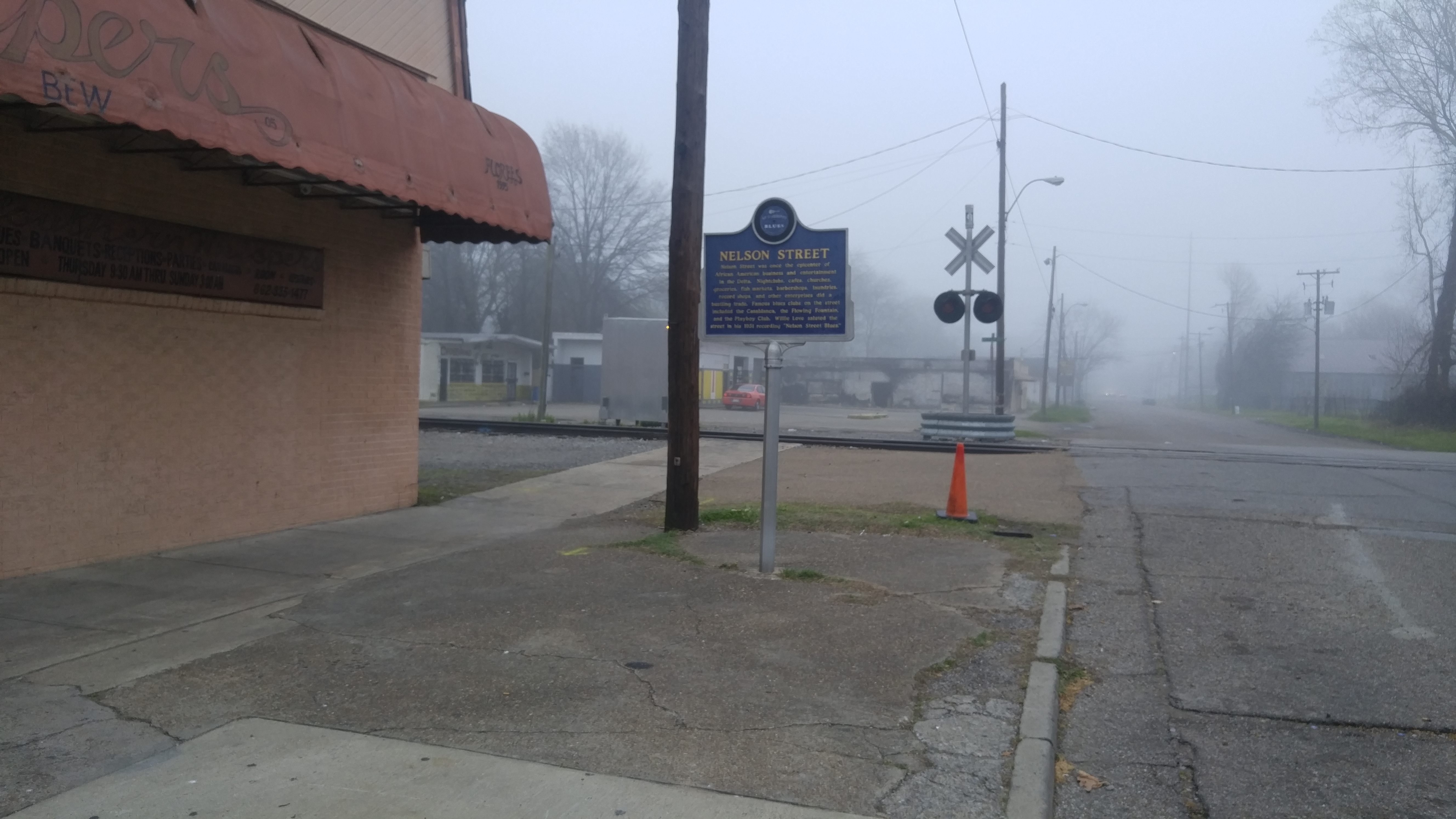 Blues trail marker located in downtown Greenville